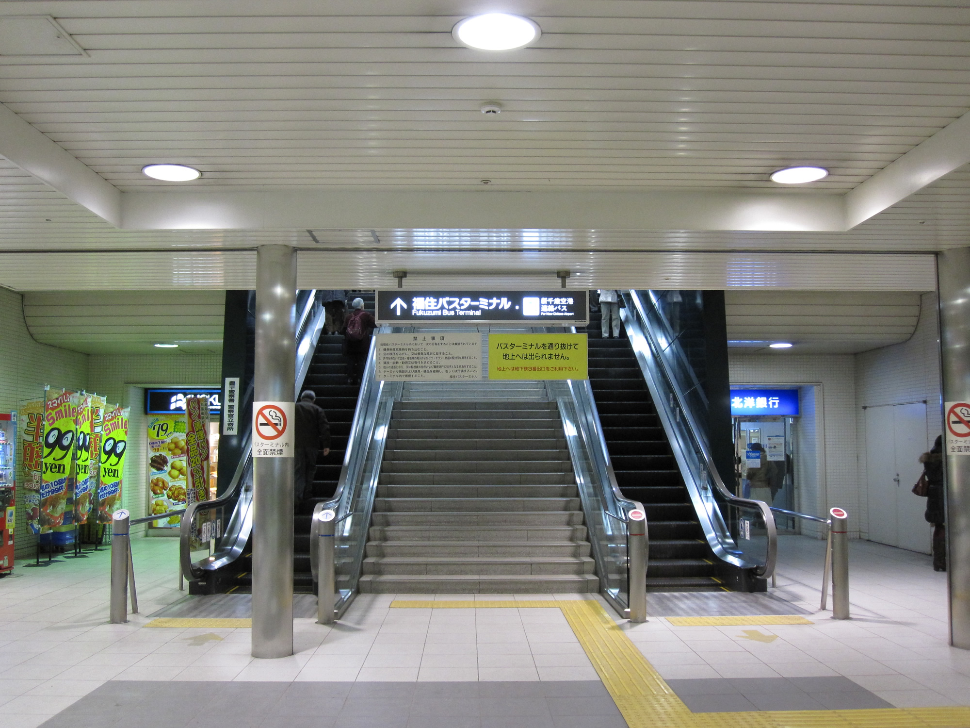 Fukuzumi Bus Terminal underground entrance